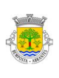 Coat of arms of Bemposta